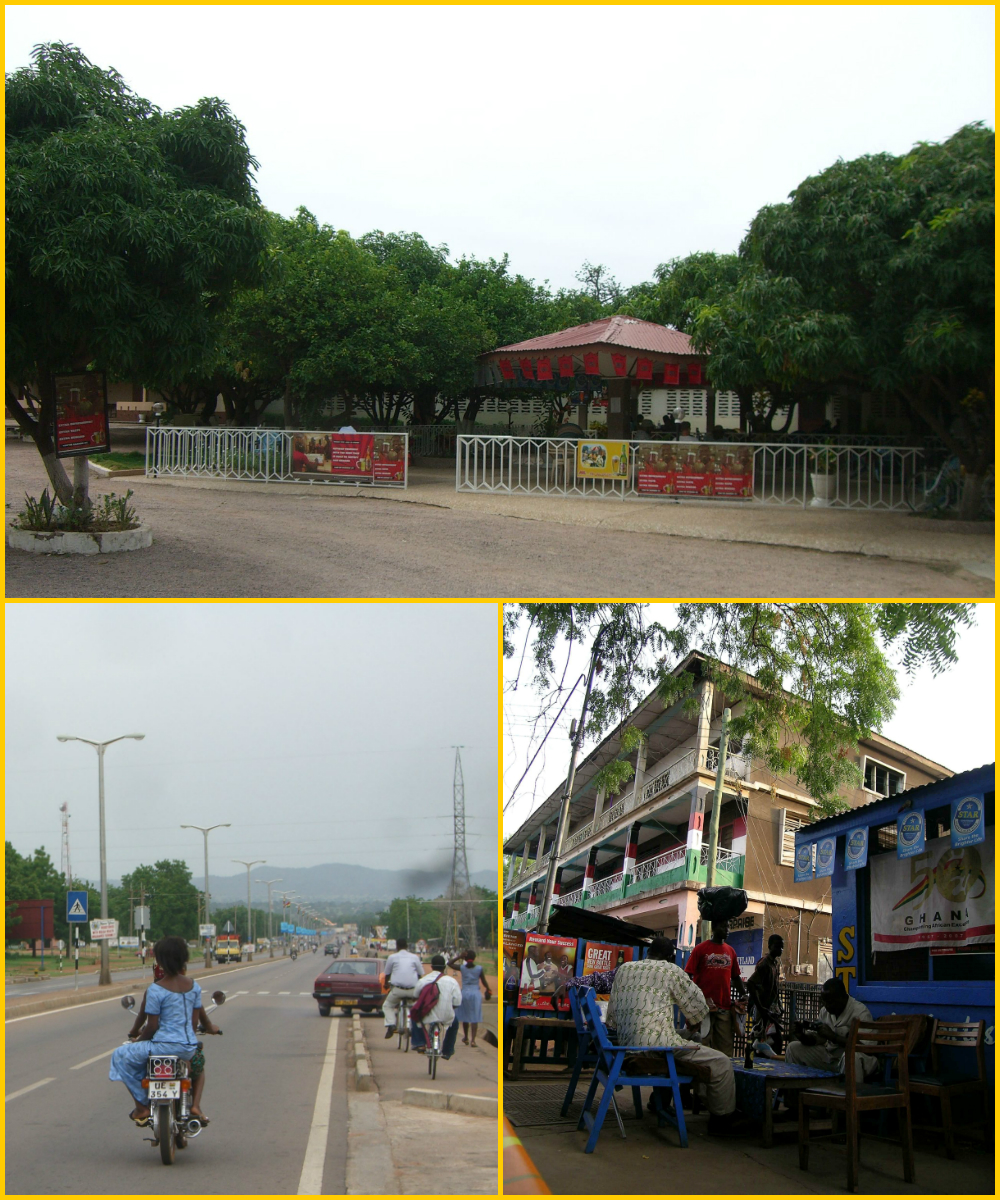 View of Avenue and Hotel in Bolgatanga.